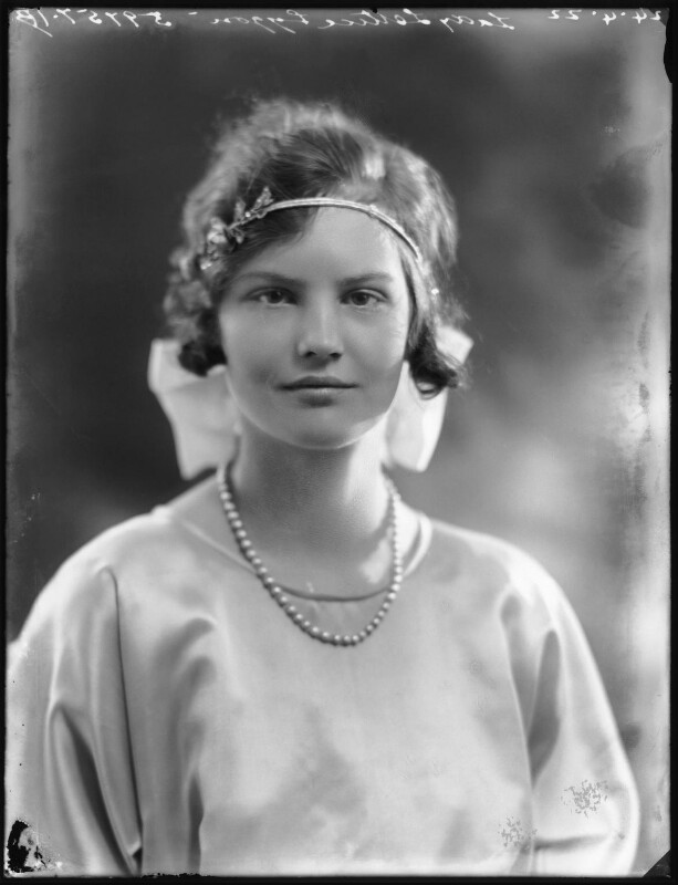 Lady Lettice Cotterell (née Lygon) by Bassano Ltd whole-plate glass negative, 24 April 1922 Given by Bassano & Vandyk Studios, 1974 Photographs Collection NPG x121494